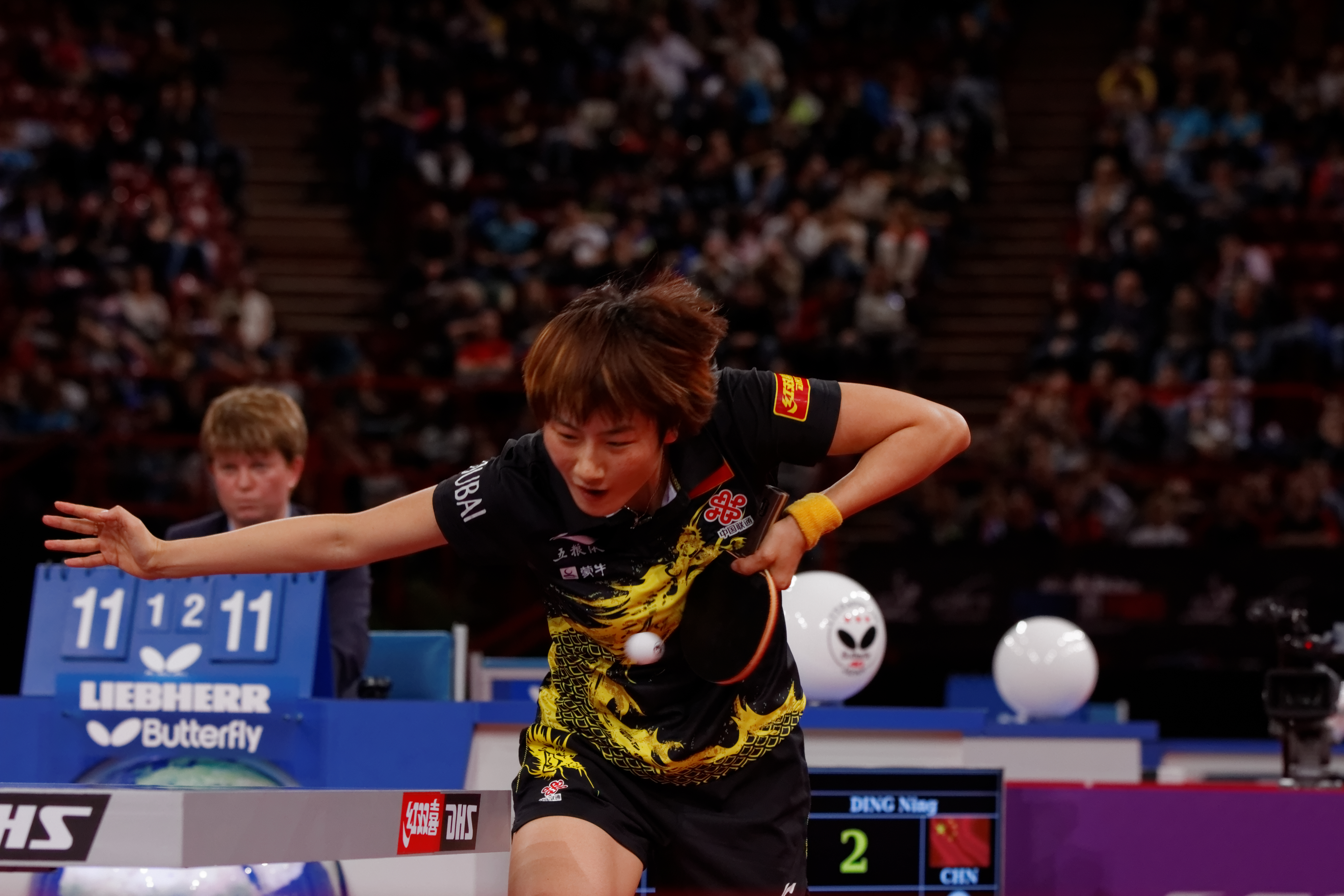 2013 World Table Tennis Championships, Paris. Women's Singles Semifinal. Ding Ning vs Li Xiaoxia.